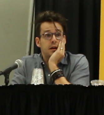 Comic book writer Matt Fraction during the Milkfed Criminal Masterminds panel at HeroesCon 2015.